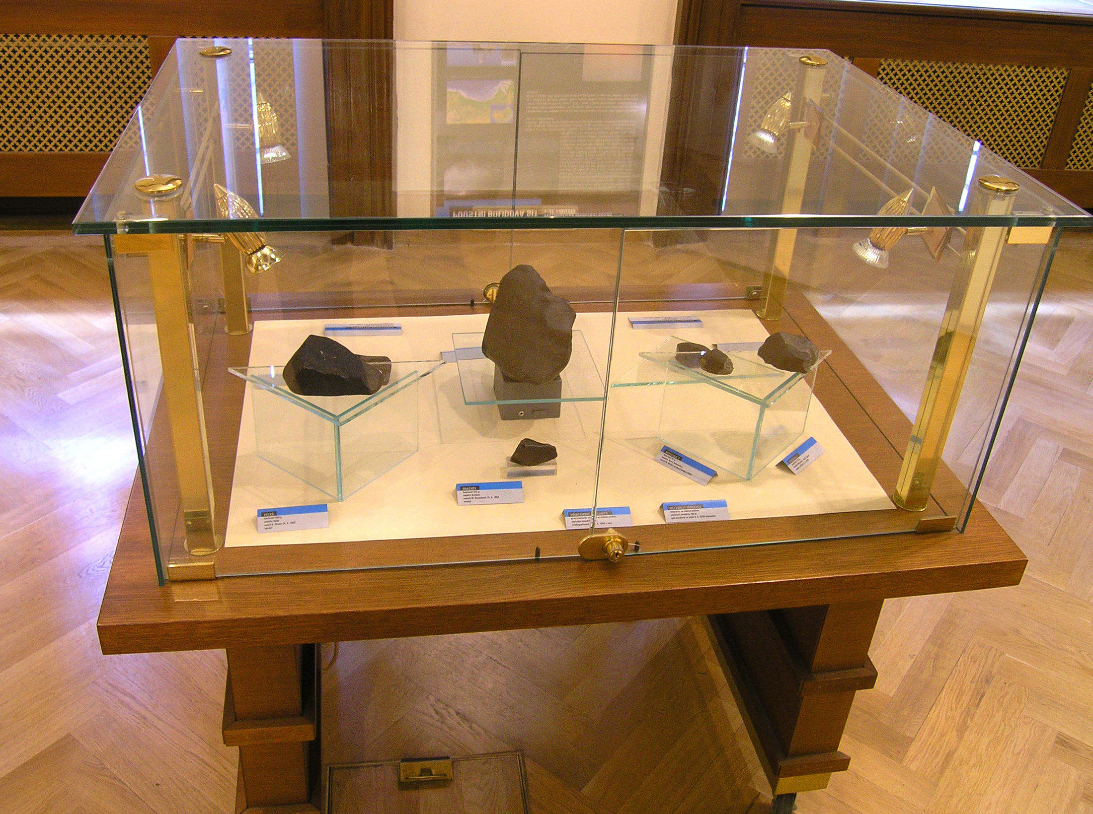 Meteorites Příbram and Morávka at the Exhibition 50th Anniversary of the Příbram Meteorite Fall, Prague, Czech Republic